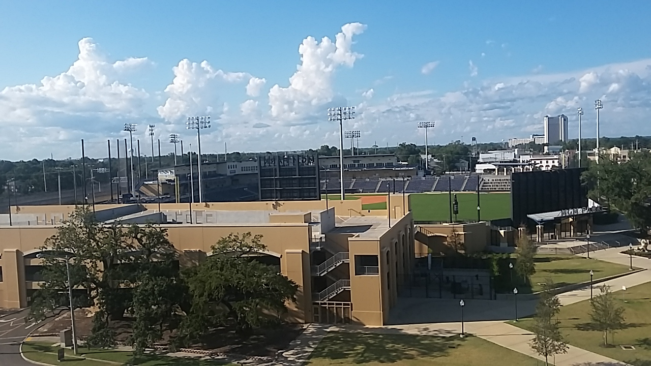 View of MGM Park in Biloxi, Mississippi, from the parking garage of Beau Rivage